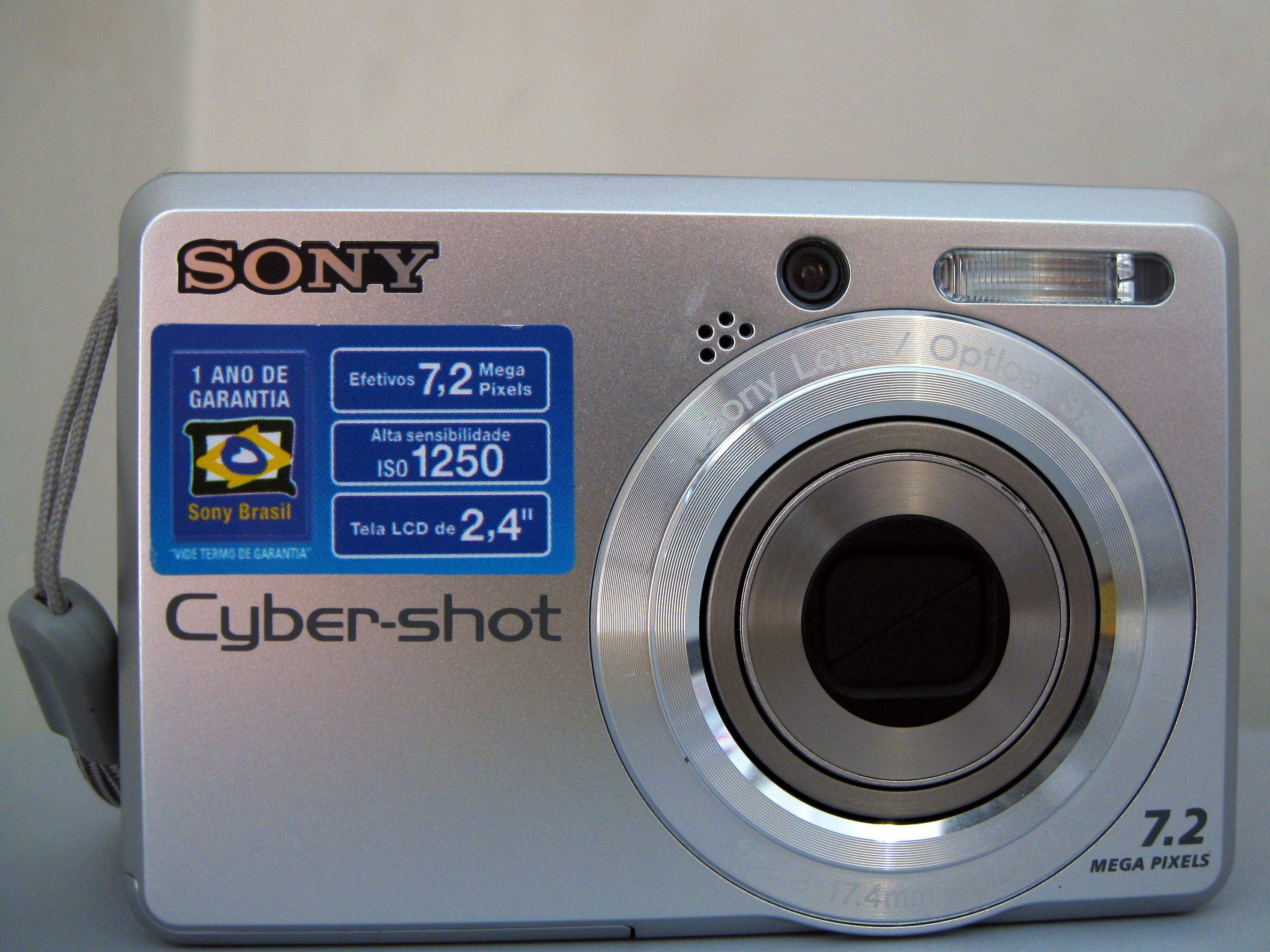 Sony Cybershot DSC-S730 camera